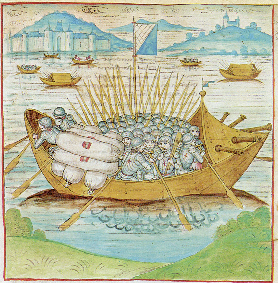 Warship of Zurich transporting goods from habsburg-areas to the besieged towns of Zurich or Rapperswil